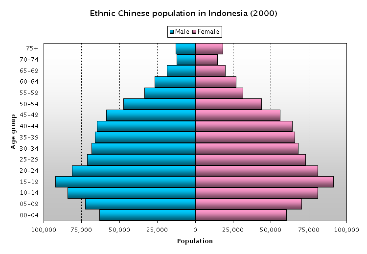 Population pyramid of ethnic Chinese living in Indonesia according to the 2000 census